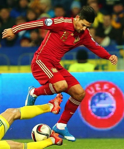 Manuel Agudo Durán